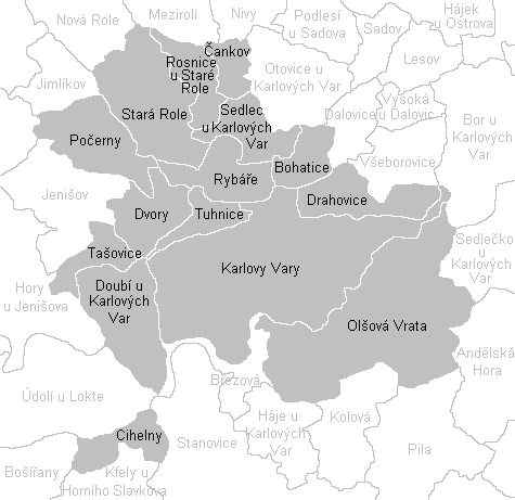 Cadastral map of Karlovy Vary